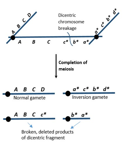 Drawn with Adobe Illustrator CC 2015 on Nov. 19, 2015. Creative Commons. Conceptual outline was modified from Hartwell, Leland; Hood, Leeroy; Goldberg, Michael; Reynolds, Ann; Lee, Silver (2011). Genetics From Genes to Genomes, 4e. New York: McGraw-Hill. ISBN 9780073525266.